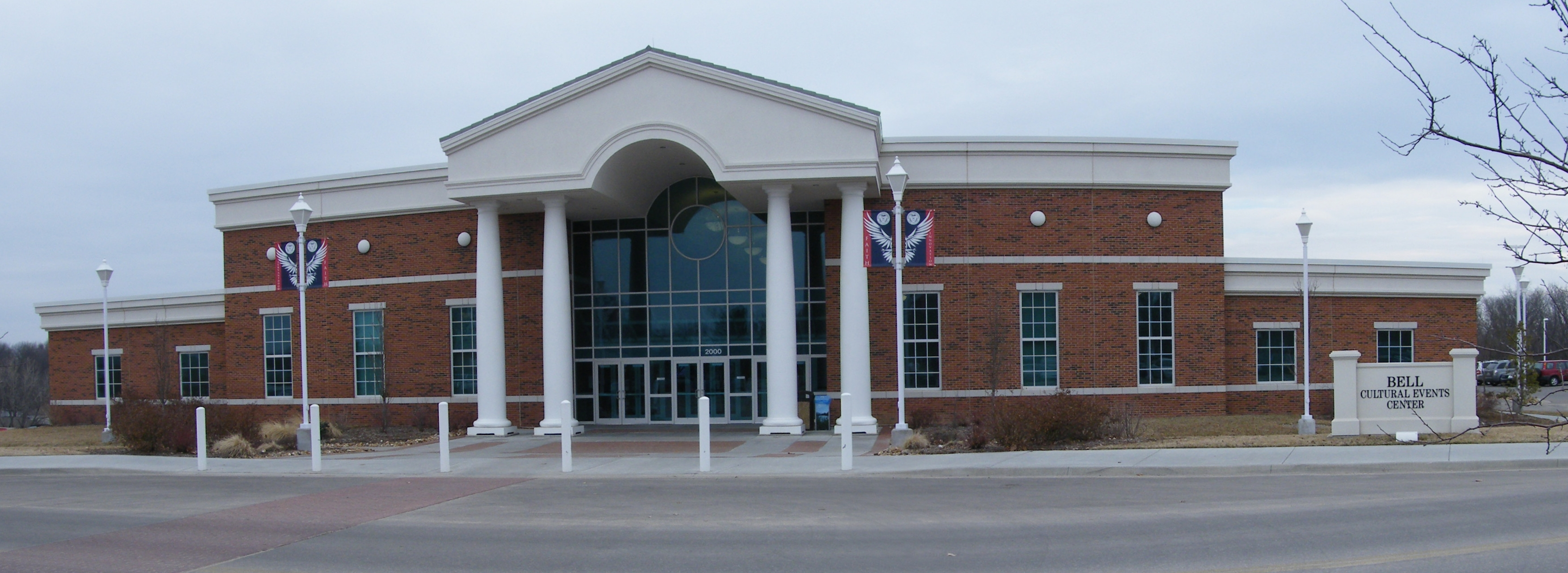 MidAmerica Nazarene University Bell Cultural Events Center